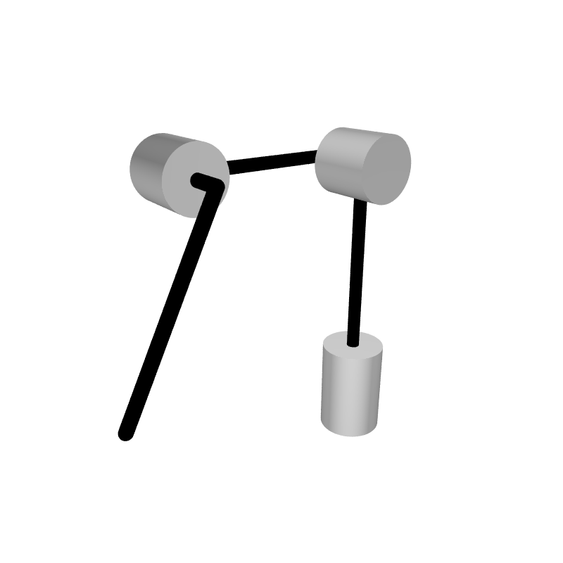 Kinematic diagram of PUMA robot